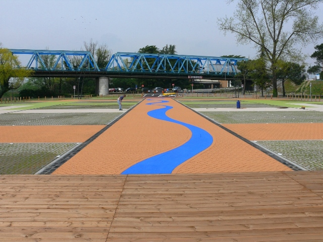 Ponte della Vittoria, San Donà di Piave (Venice)